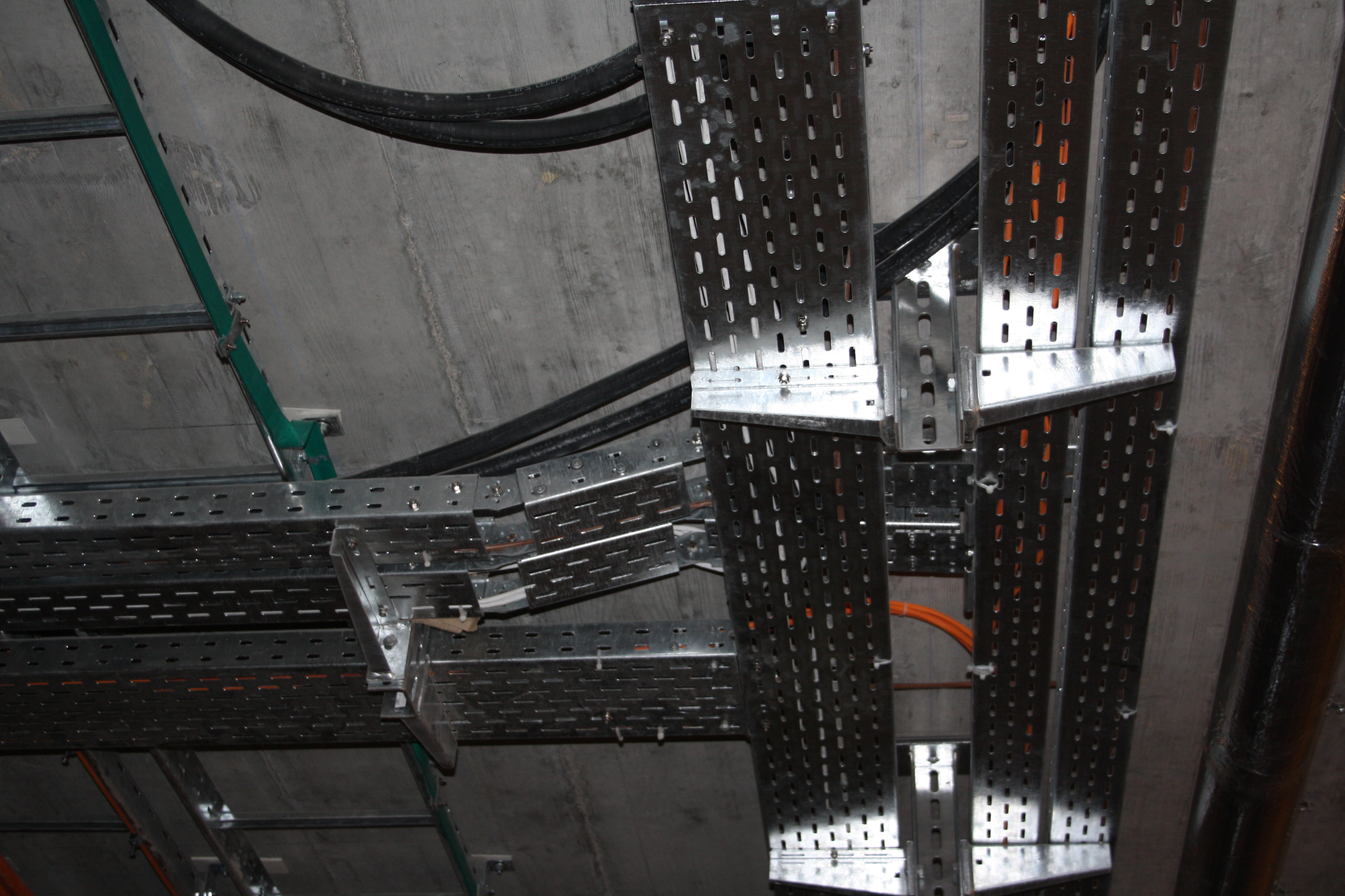 Cable trays mounted on the ceiling